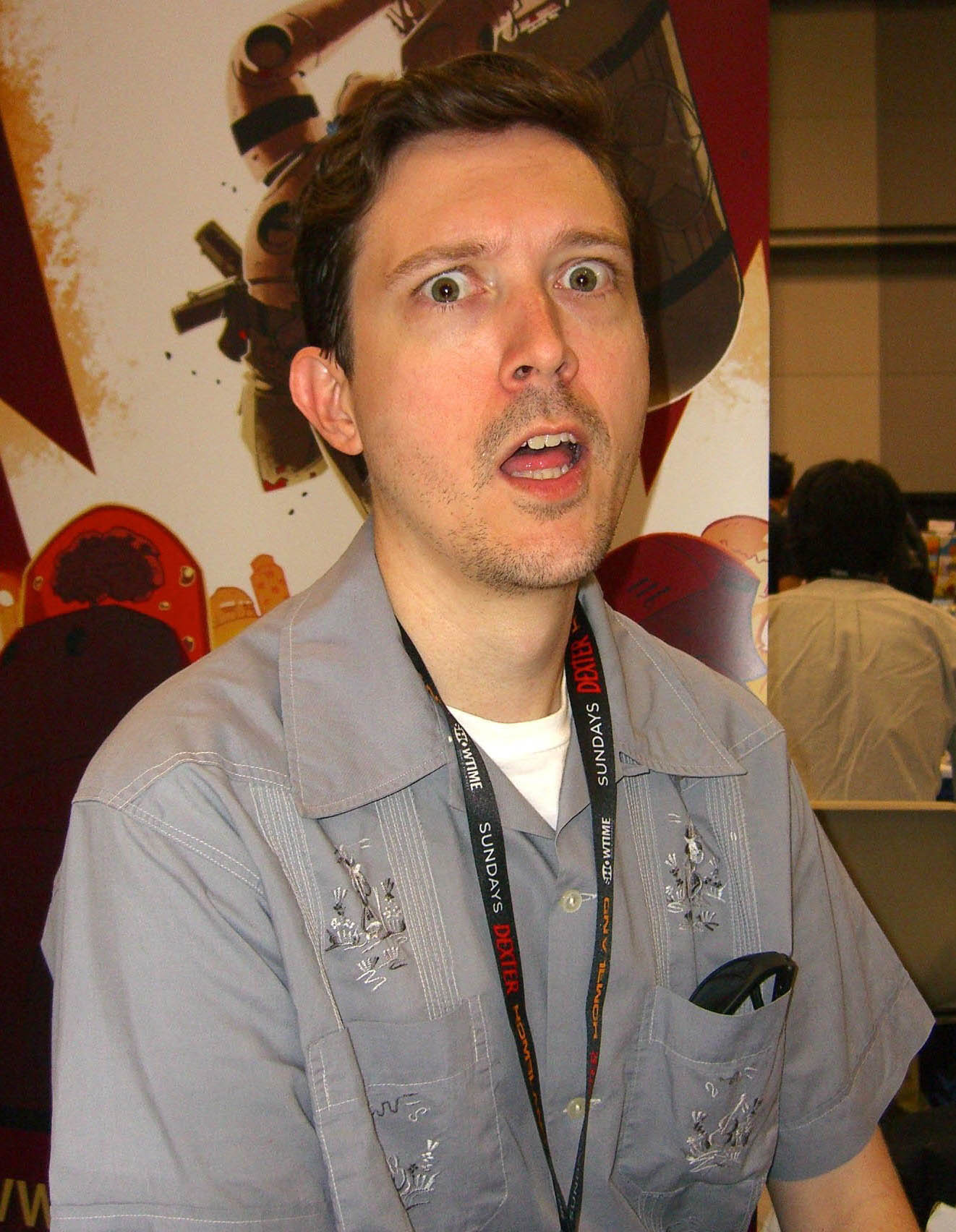 Comics creator Brian Clevinger during an October 16, 2011 appearance at the New York Comic Con in Manhattan. This photo was created by Luigi Novi. It is not in the public domain, and use of this file outside of the licensing terms is a copyright violation.